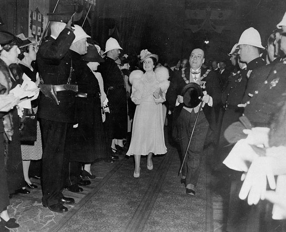 H.M. Queen Elizabeth with Rt. Hon. Mackenzie King and Mayor Camillien Houde leaving Windsor Station. (Montreal, Canada).